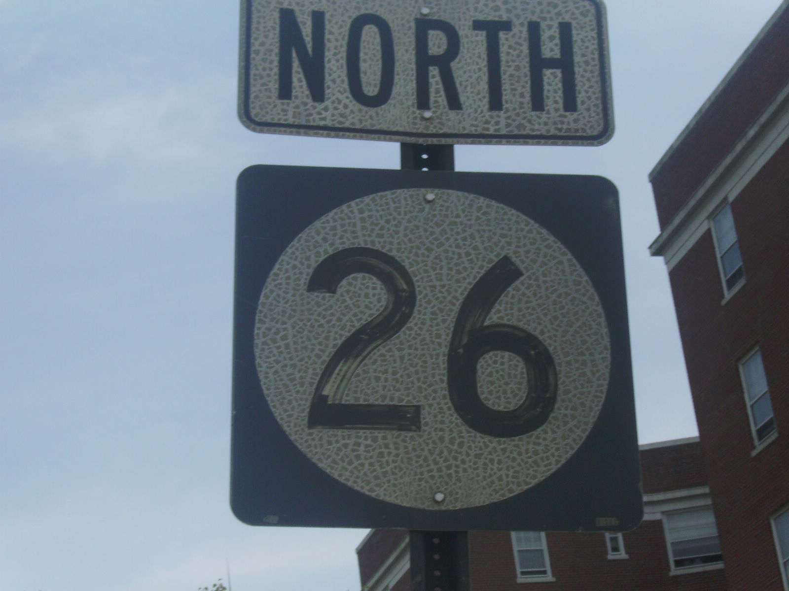 1965 shield from CR 691 and NJ 171 depicting an alignment of NJ 26.